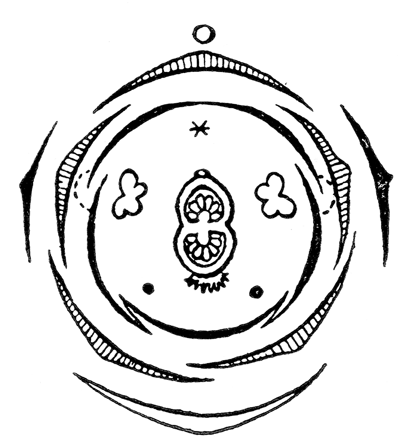 flower diagram of Veronica (Plantaginaceae)